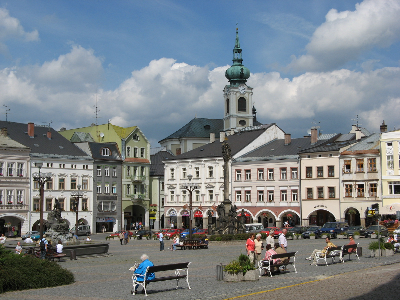 Krakonoš Square in Trutnov (Czech Republic)